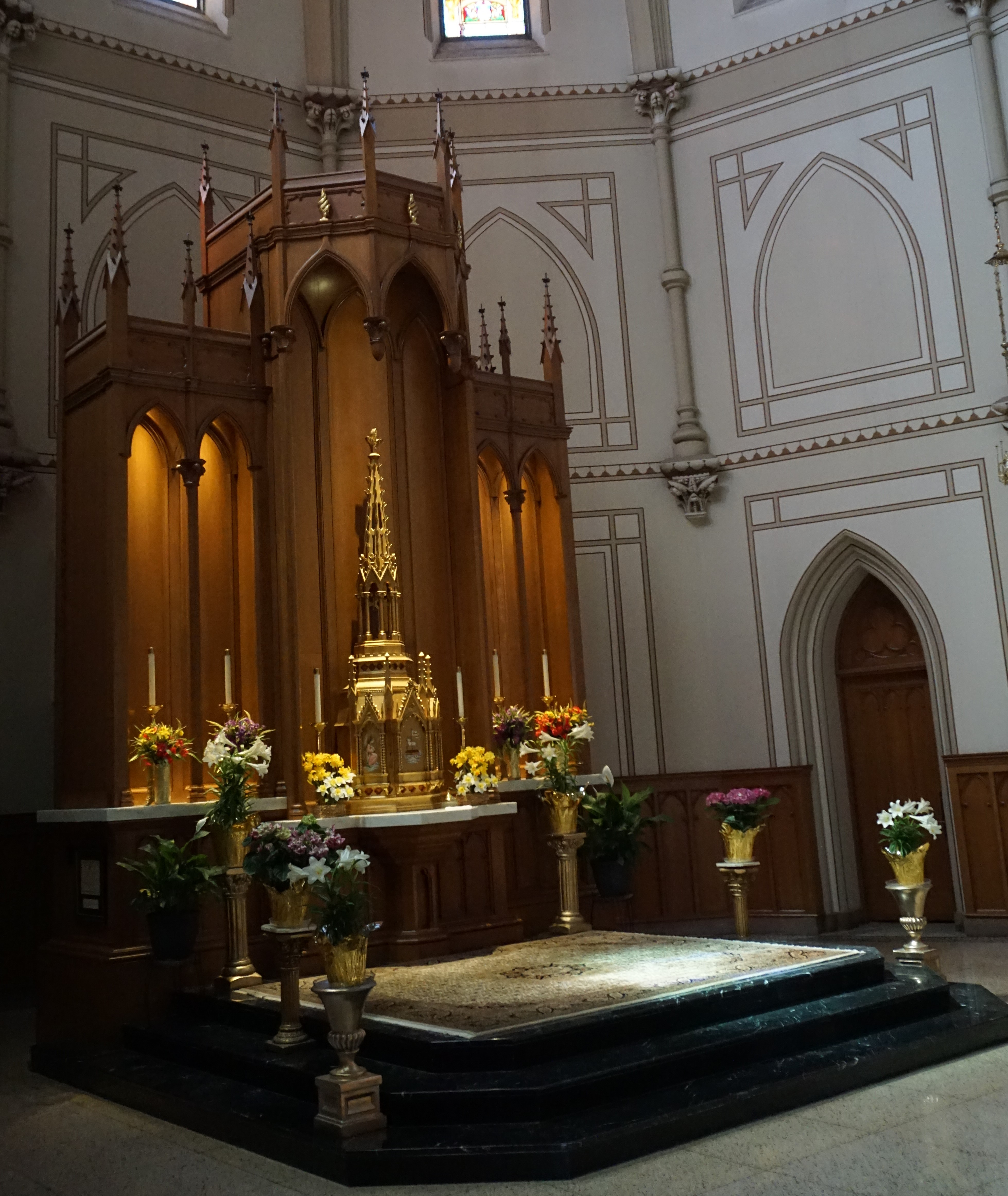 Tabernacle& Reredos of St. Dominic Church in Southwest Washington, DC